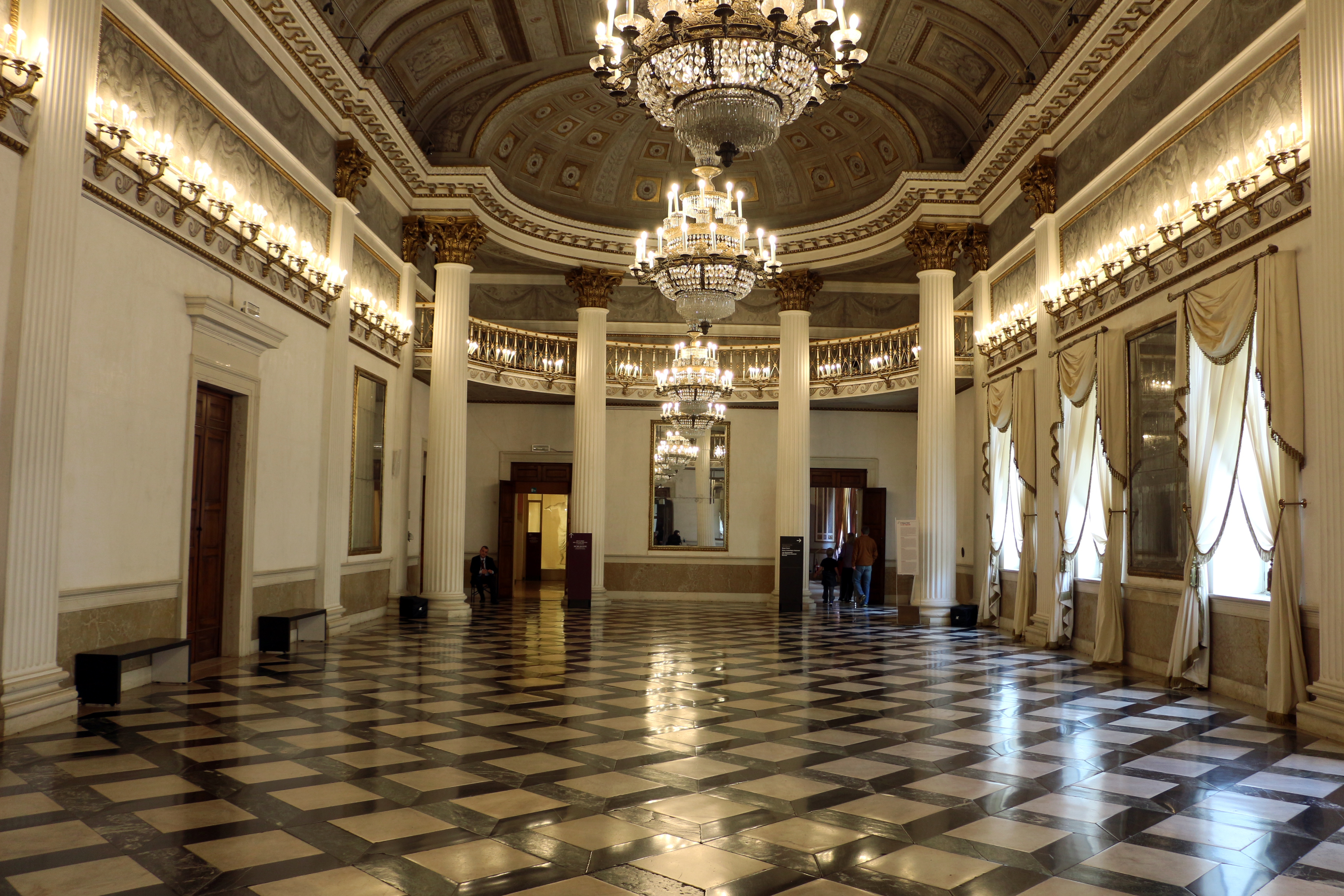 Museo Correr (Venice)